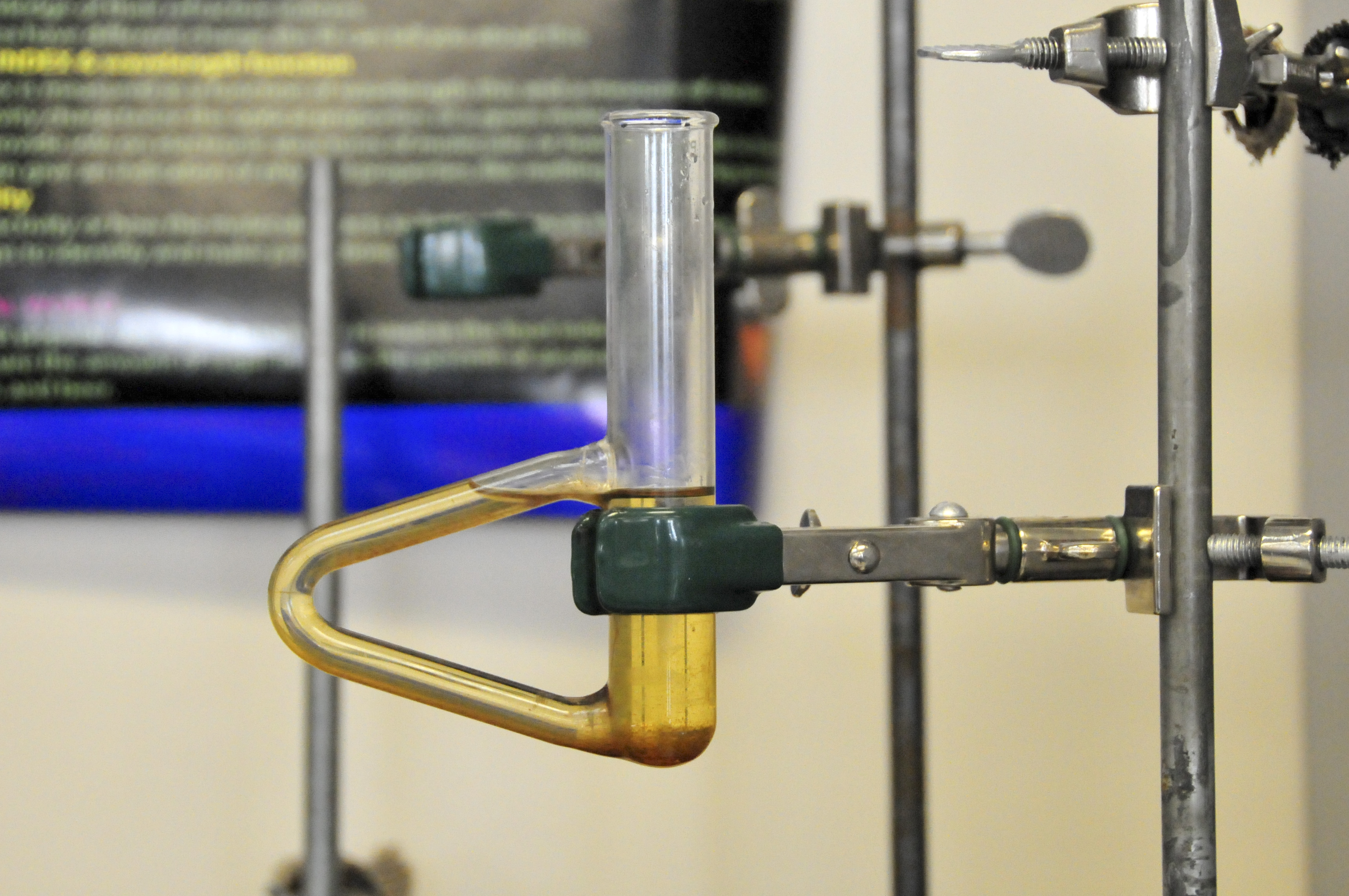 Thiele tube, with dirty oil in it.